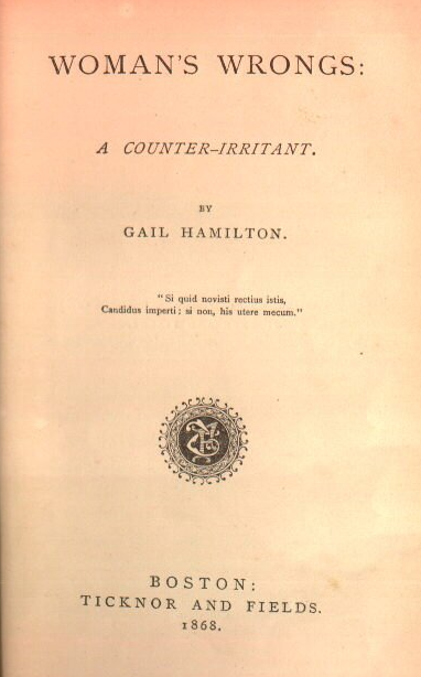 Womans Wrongs by Gail Hamilton; title page